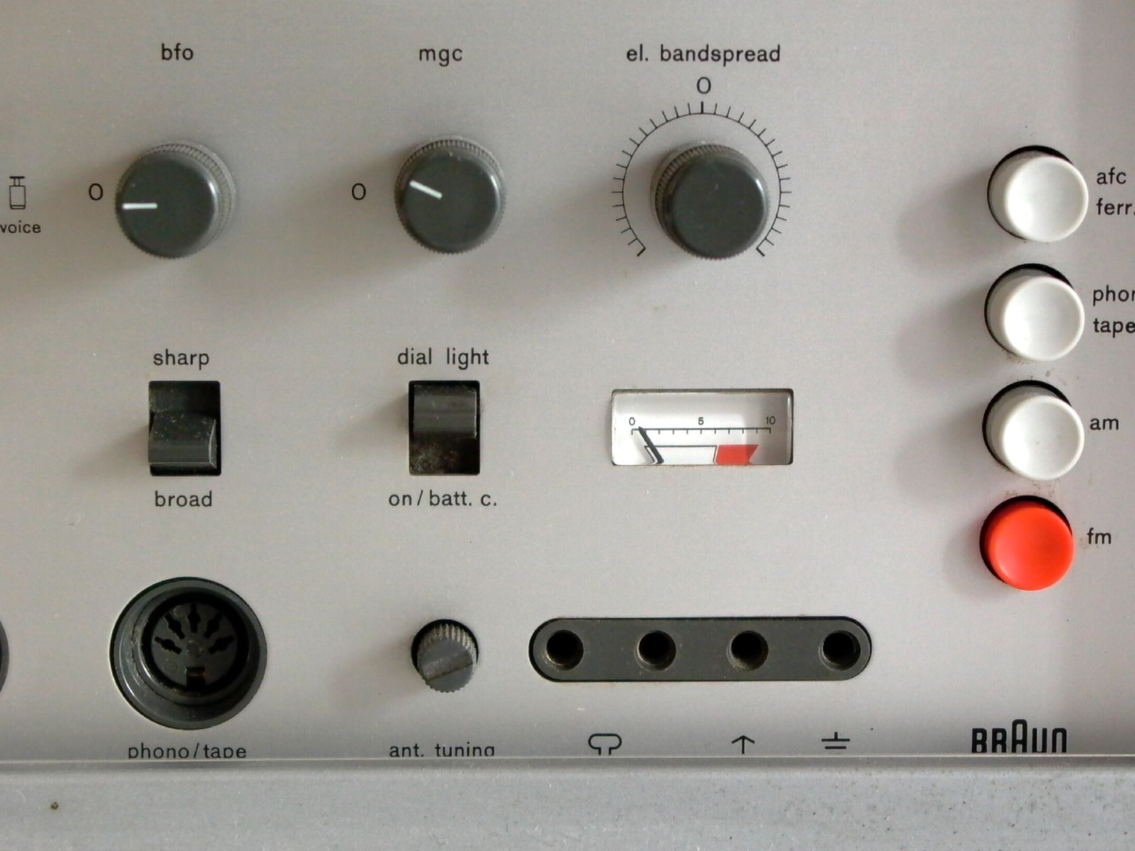 The Braun T1000CD was produced in the mid 60s as a multiband "world receiver". It is a single conversion superheterodyne which covers the entire SW range in 12 bands (has a BFO control for SSB detection), plus the commercial FM band 88 - 108 MHz. This model followed the T1000, just slightly modified, and was quite a big success in spite of its hefty price. Band coils are housed in a rotary drum, and have solid gold contacts, which gives an idea of the quality that was used in the design of the electronic circuits.